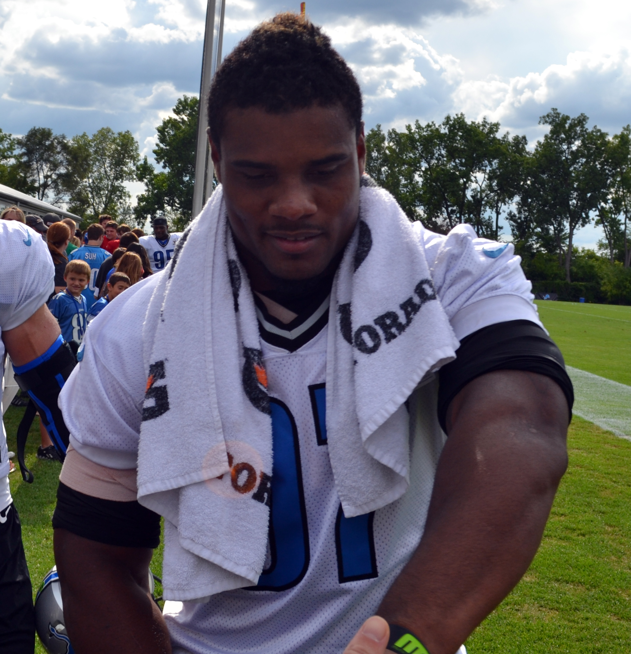 Detroit Lions defensive end Ronnell Lewis